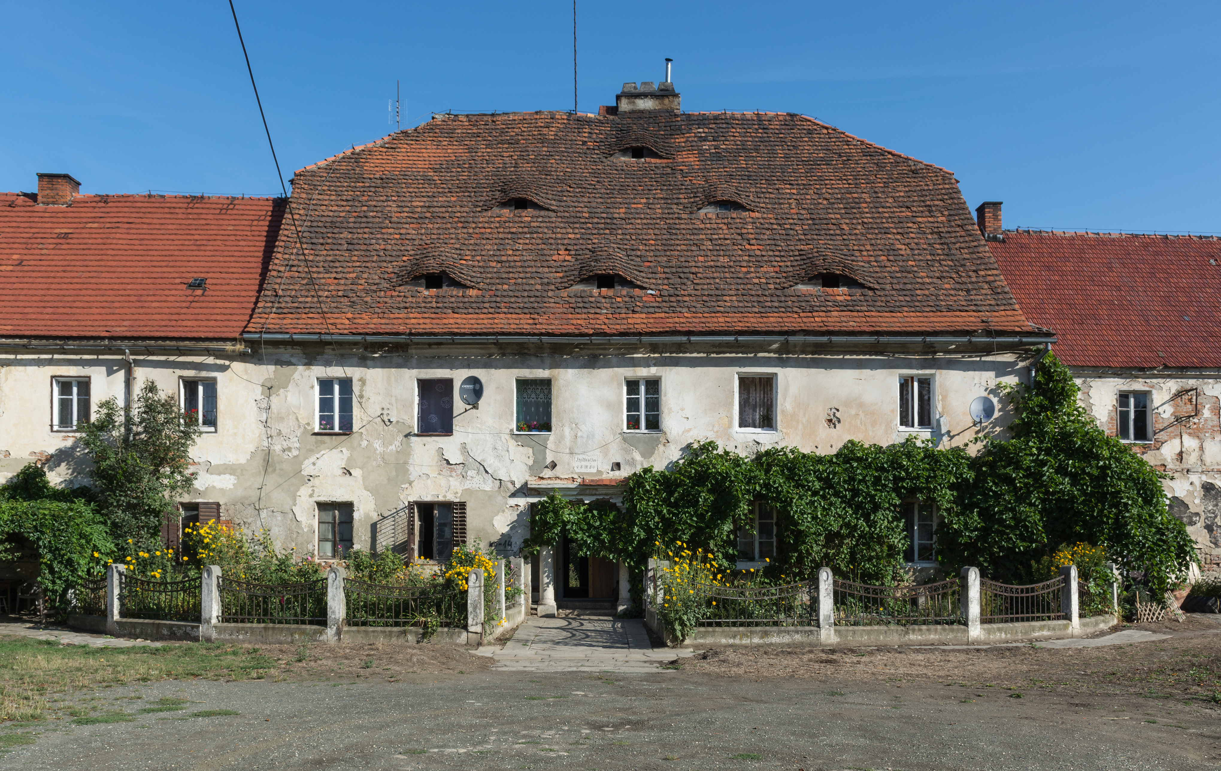 Manor in Stary Wielisław